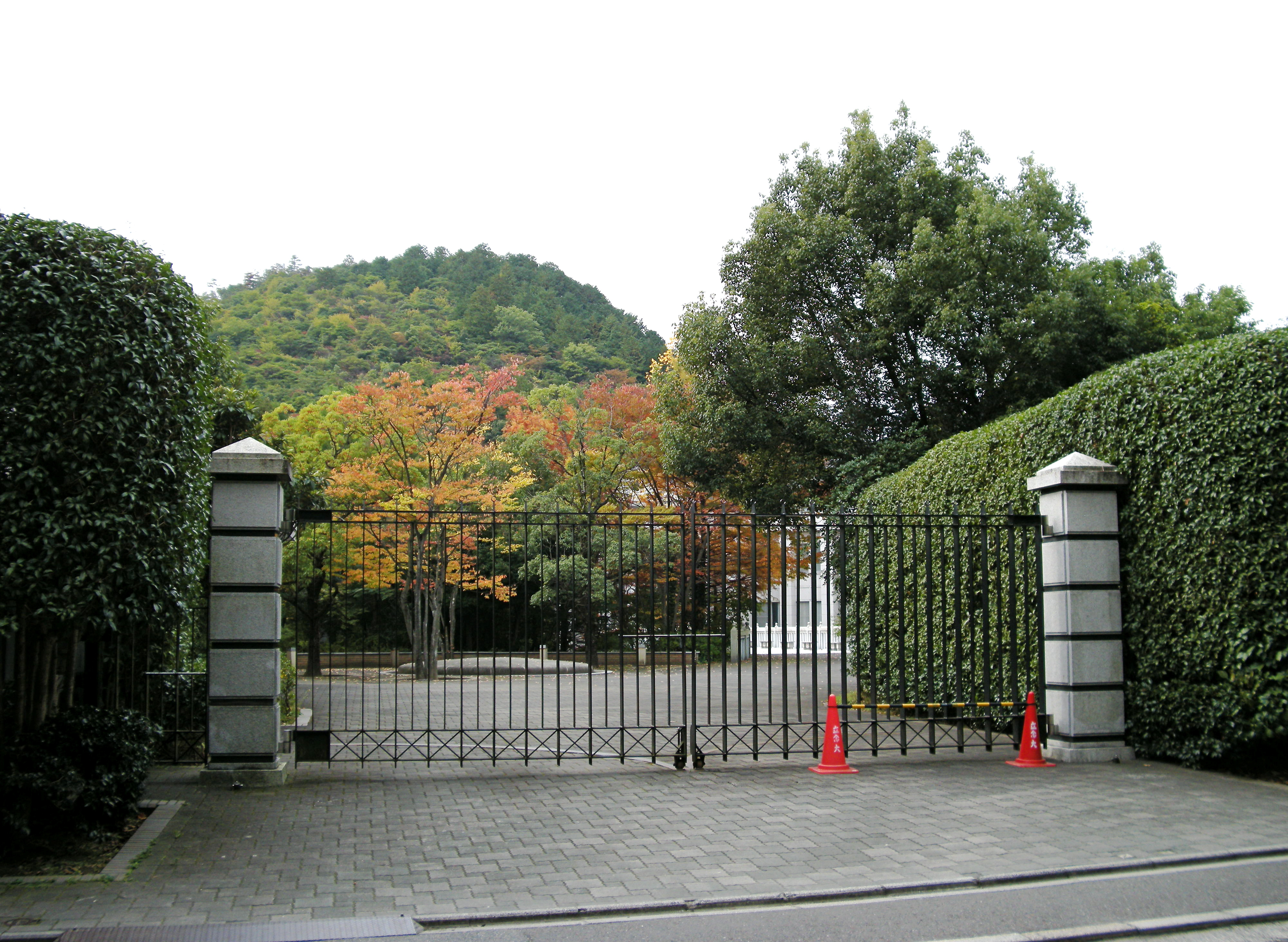 Main Gate of Saionji Memorial Hall (Kinugasa Campus, Ritsumeikan University, Kyoto, Japan)